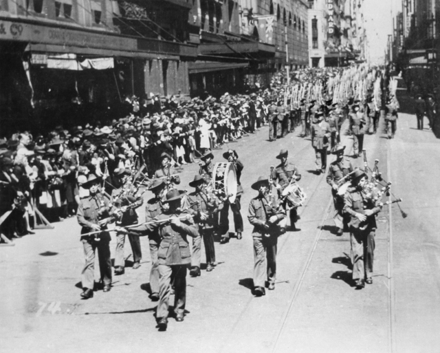 AWM caption: Members of 2/19th Battalion of 8th Division march down Castlereagh Street near the corner of Hunter Street, lined with crowds of spectators. Lieutenant Colonel Duncan Maxwell, Commanding Officer, leads members of `A' Company. They are preceded by members of the first 2/19th Battalion band.